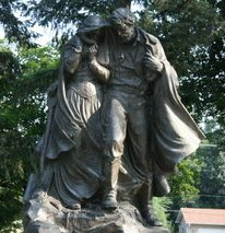 A Monument in the Mormon Pioneer Cemetery at Winter Quarters (1936), Florence, Nebraska Known as "The Tragedy of Winter Quarters" this monument was produced at a heroic size by commission of the LDS Church, based on a smaller scale original produced for the 1933 Chicago World Fair